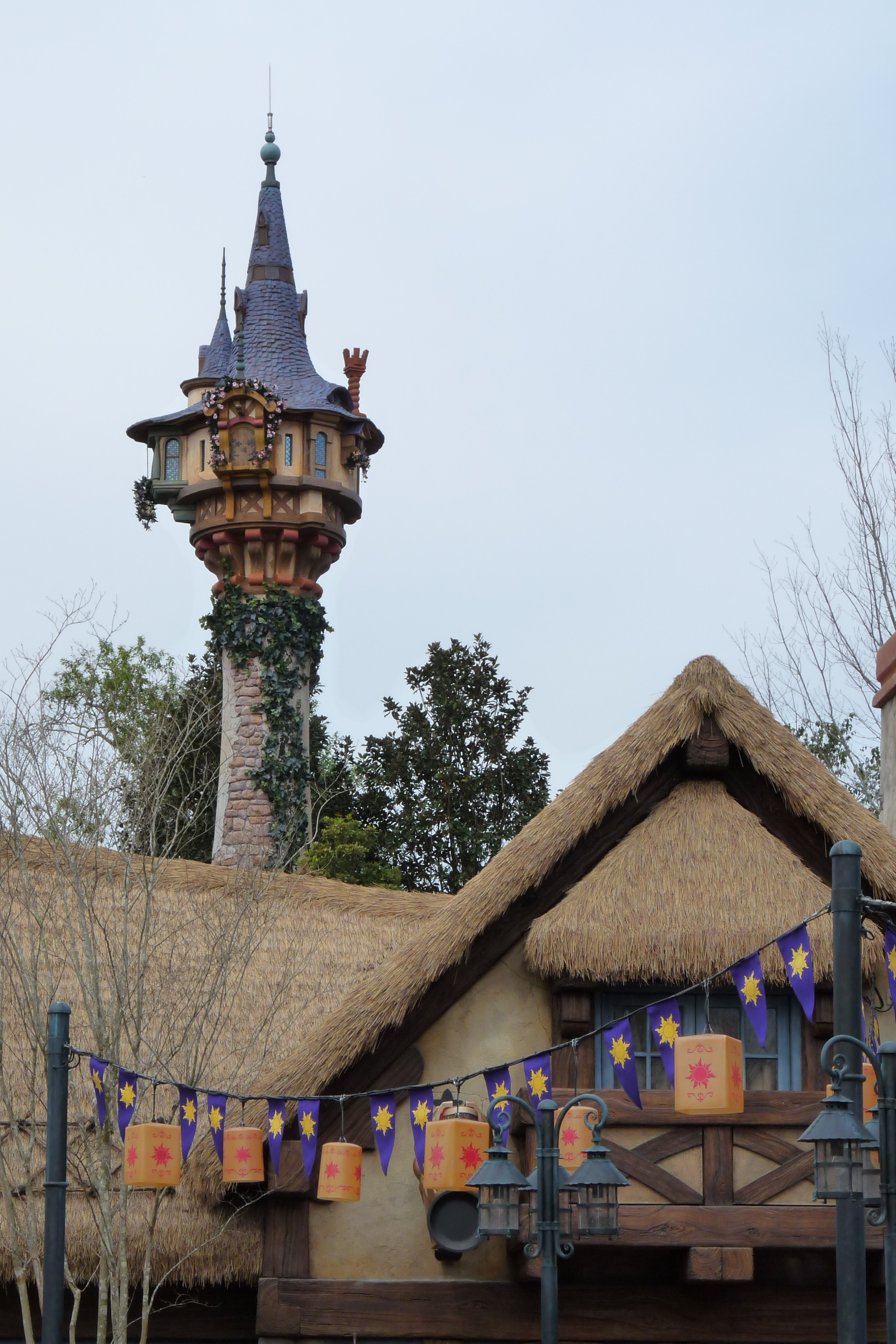 Walt Disney World, Orlando, FL